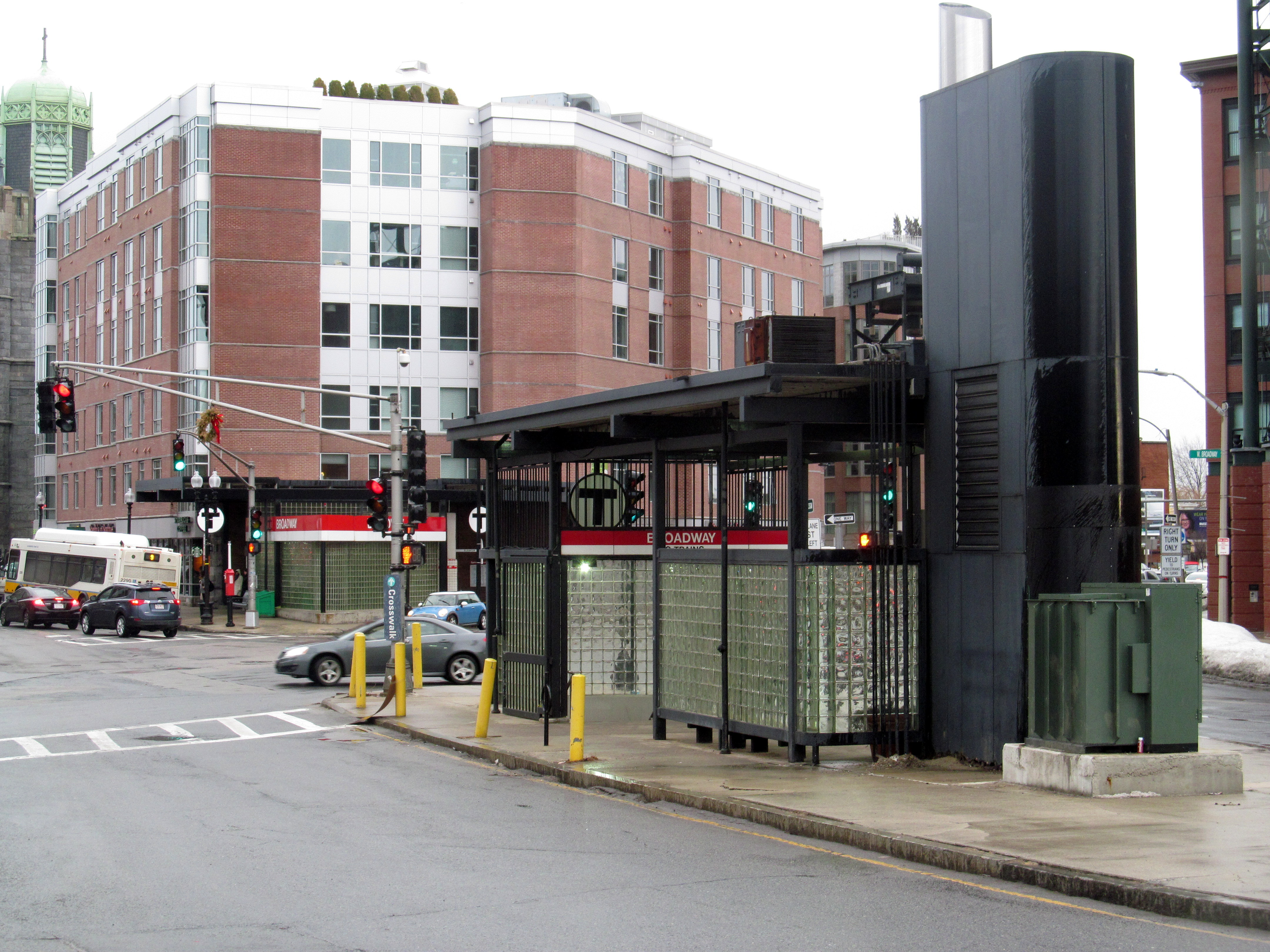 Headhouses at Broadway station in March 2015